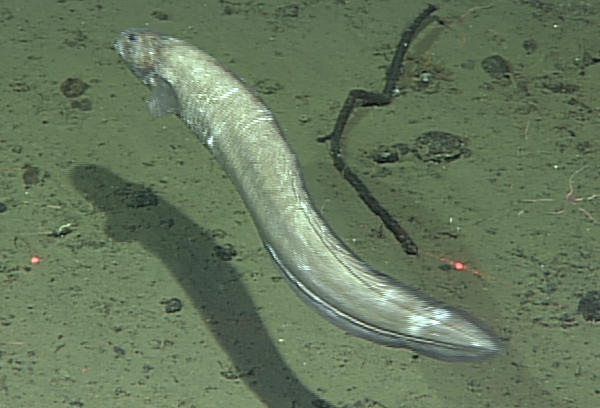 Eelpout (Pachycara sp.) on the Davidson Seamount at 2602 meters depth.